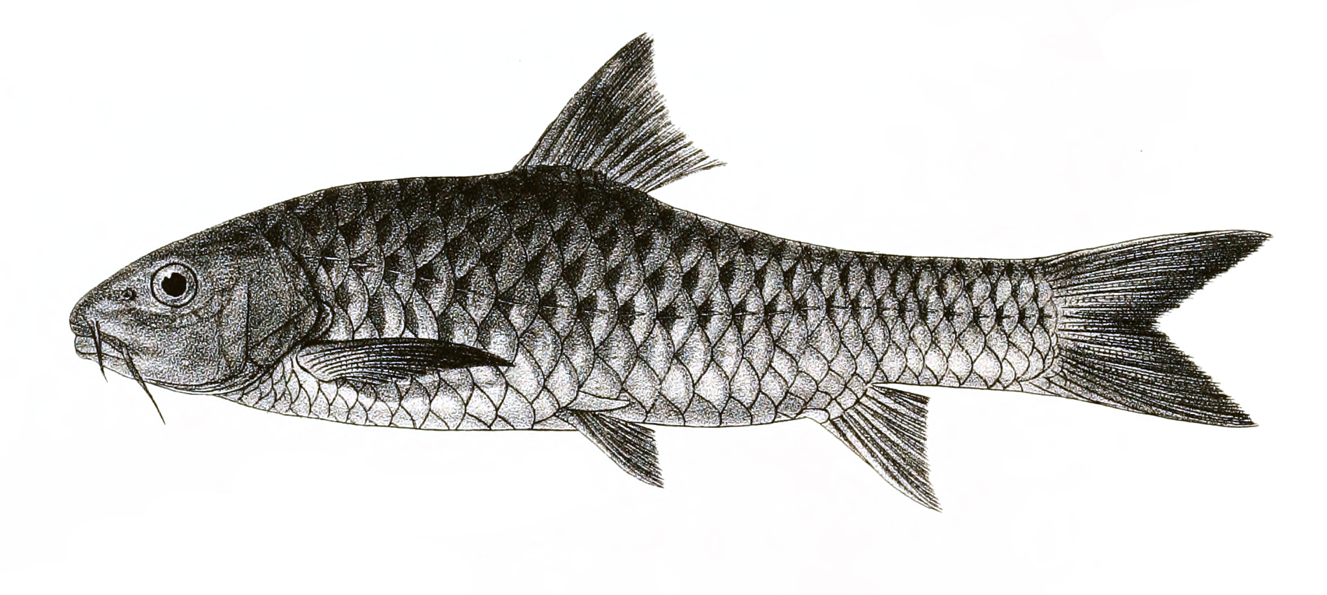 The species names / identity need verification - original names from plate are included here. The original plates showed the fishes facing right and have been flipped here. Barbus stracheyi